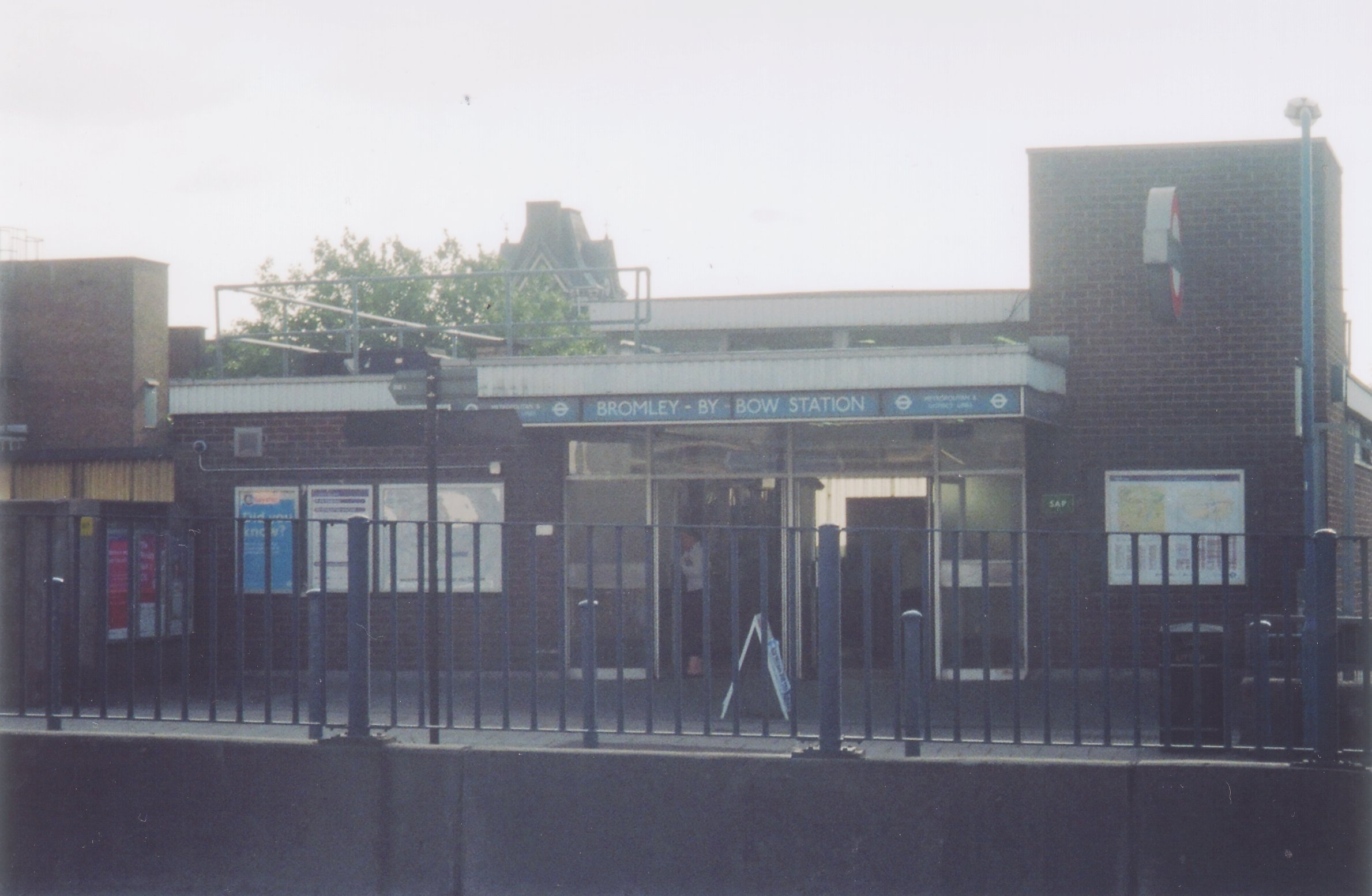 Bromley-By-Bow tube station taken from across the road, August 10th, 2005.